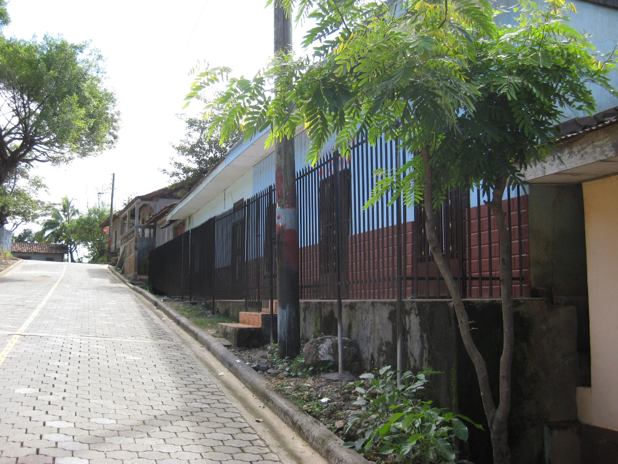 Municipality of San Juan de Cinco Pinos, Chinandega Department, Nicaragua.